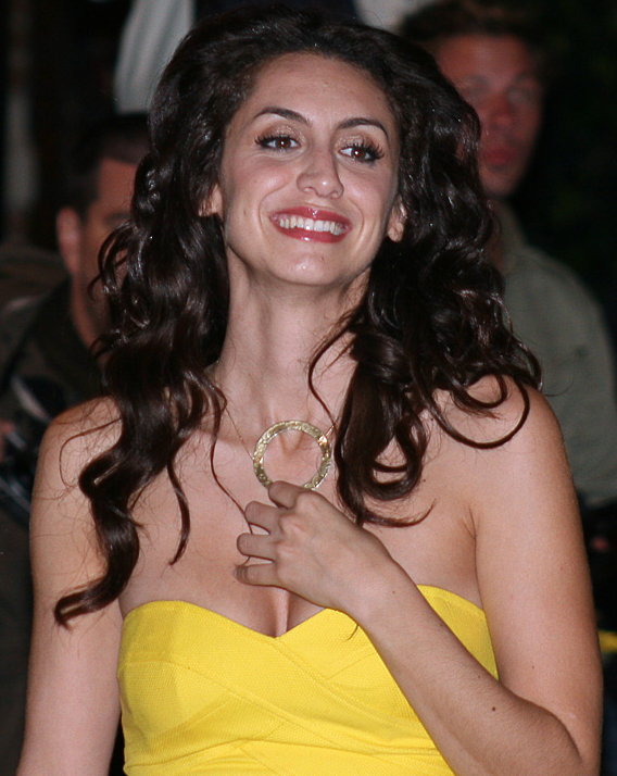 Mozhan Marnò at the 2008 Toronto International Film Festival.